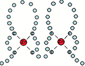 LIM domain schematic. Created by Bassophile 12:00, 22 January 2007 (UTC)